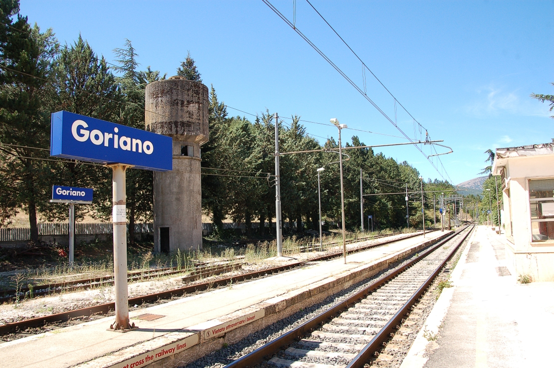 Goriano Sicoli